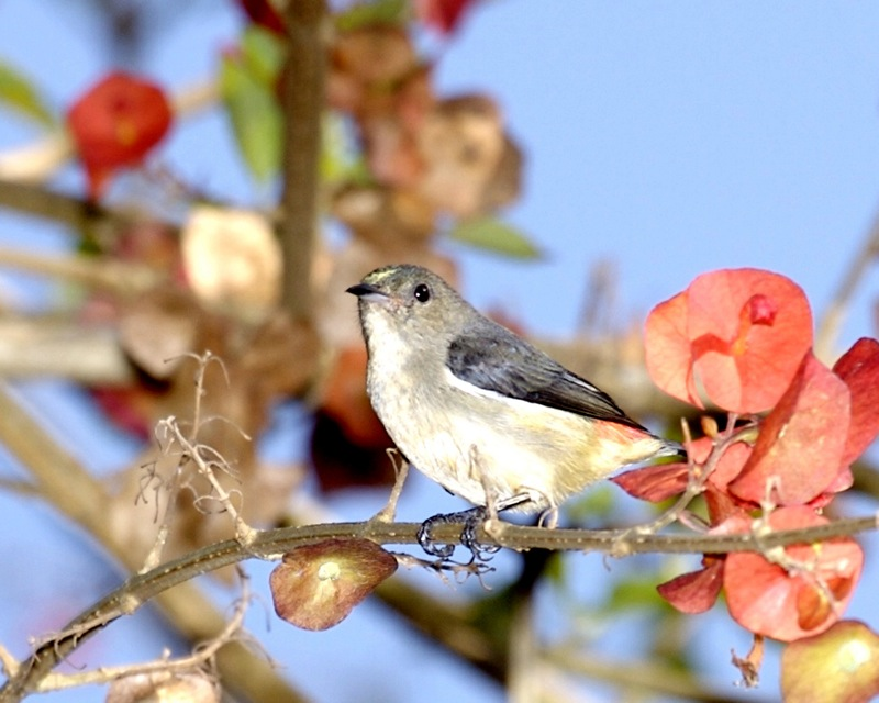 Blood-breasted Flowerpecker- female Dicaeum sanguinolentum Location: Cibodas, Java, Indonesia 27th. August 2006 To see my male counterpart: and Dicaeum sanguinolentum has 4 subspecies : Dicaeum sanguinolentum sanguinolentum Dicaeum sanguinolentum rhodopygiale Dicaeum sanguinolentum wilhelminae Dicaeum sanguinolentum hanieli